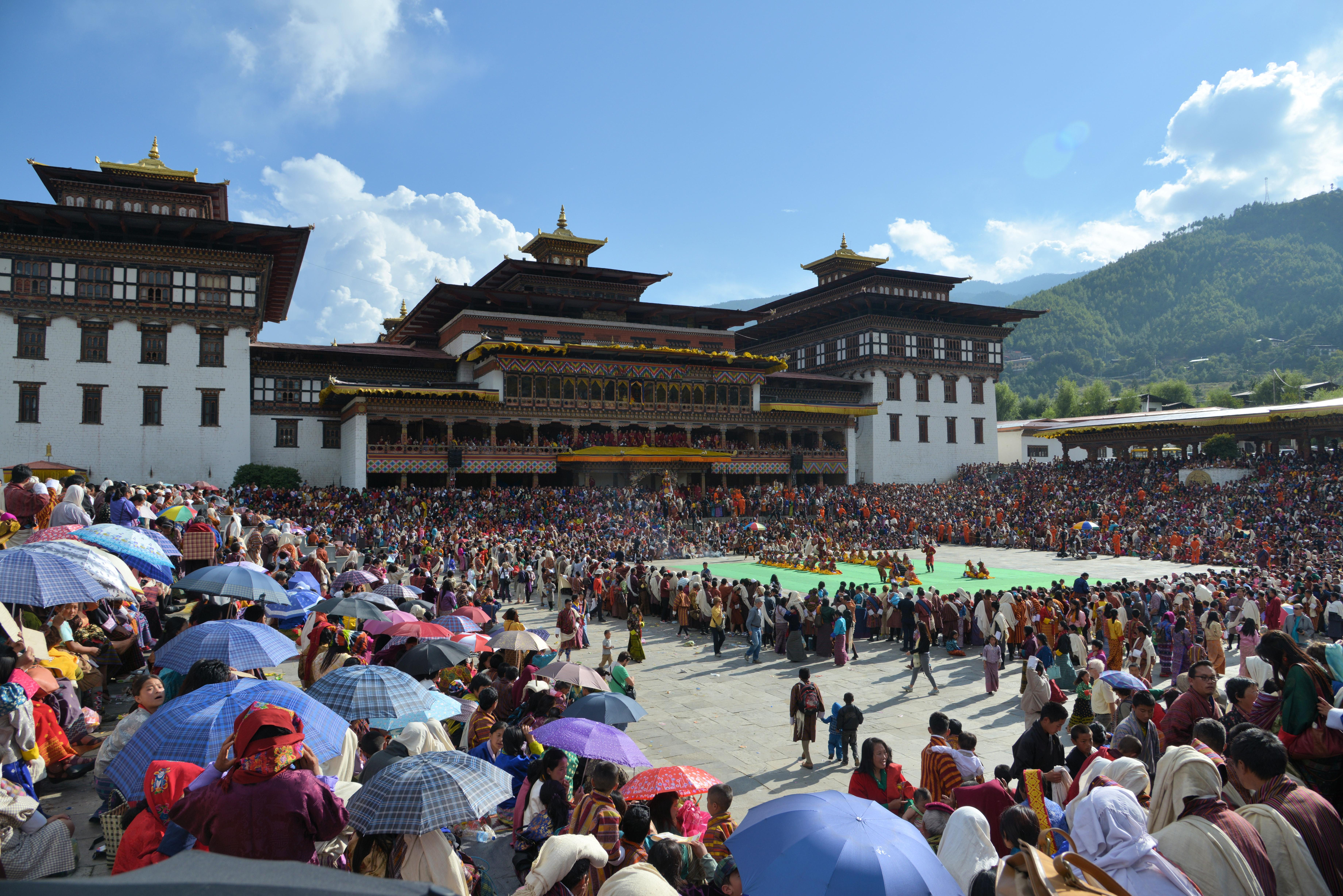 Crowd at Tsechu festival Tashicho Dzong